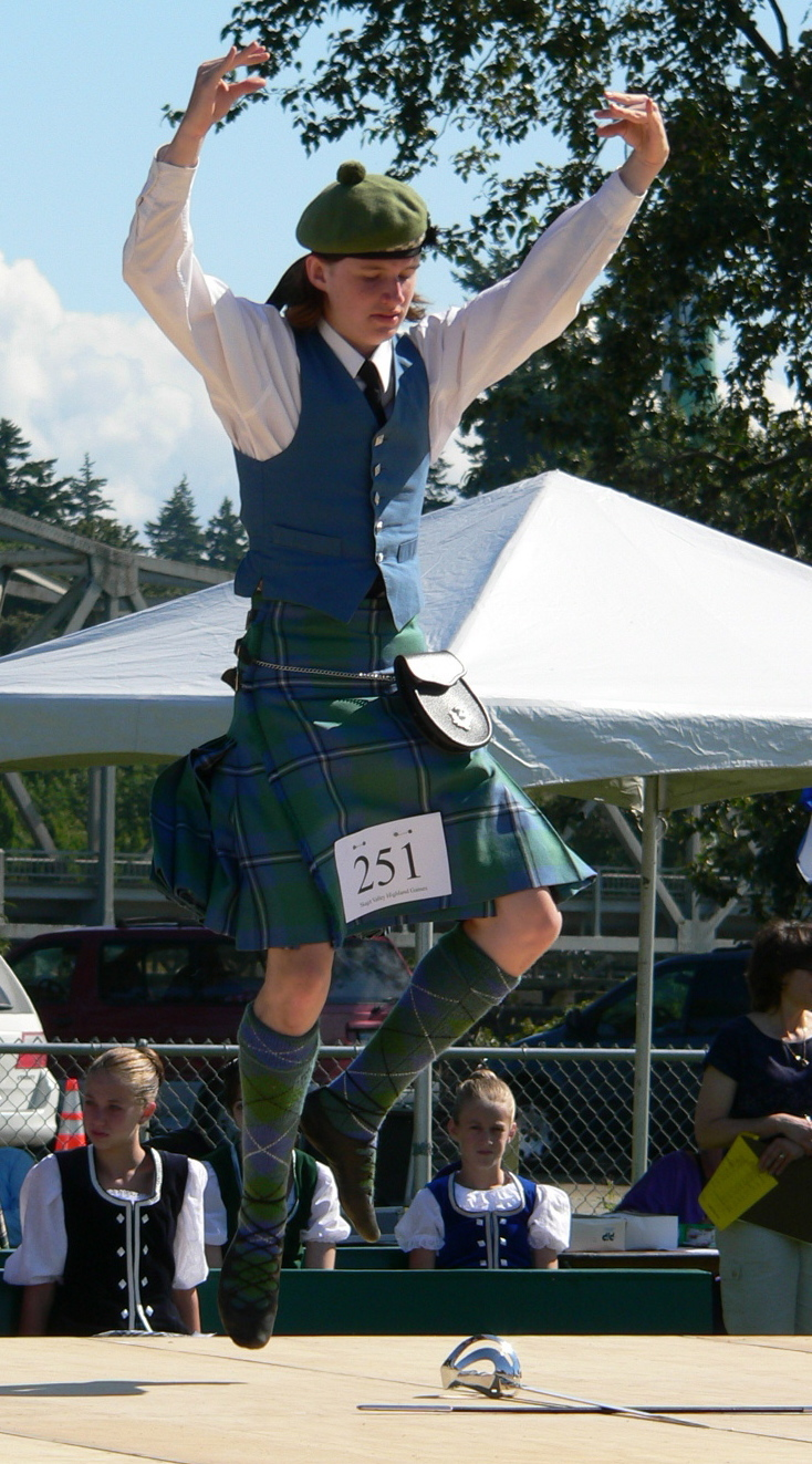 An example of the men's Highland attire adopted for Highland dancing. The dancer is wearing kilt with sporran, jacket, and bonnet while performing the sword dance at the 2005 Skagit Valley Highland Games in the U.S. Pacific Northwest.